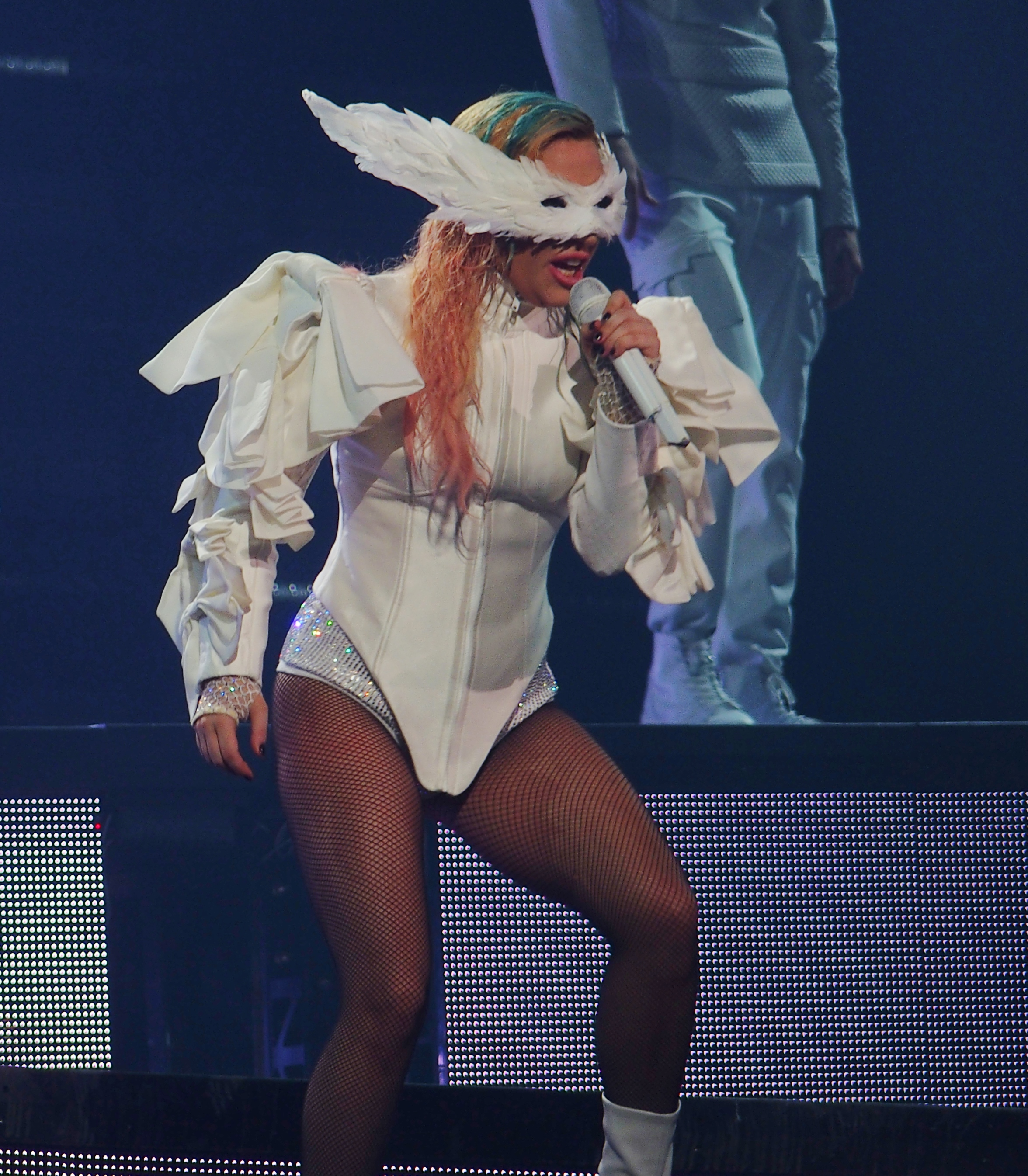 Lady Gaga performing "Bad Romance" on the Joanne World Tour